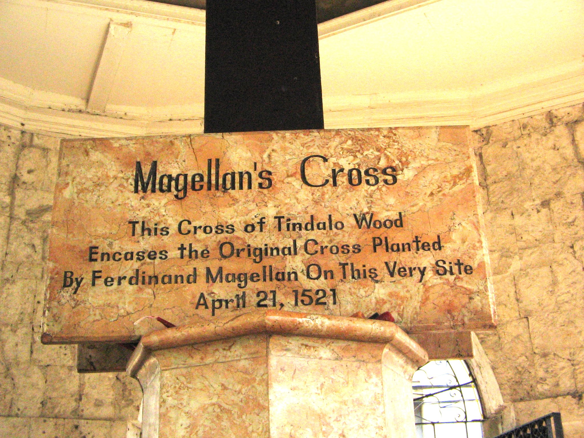 Magellans cross marker, Magellans cross entrance, Cebu City, Philippines